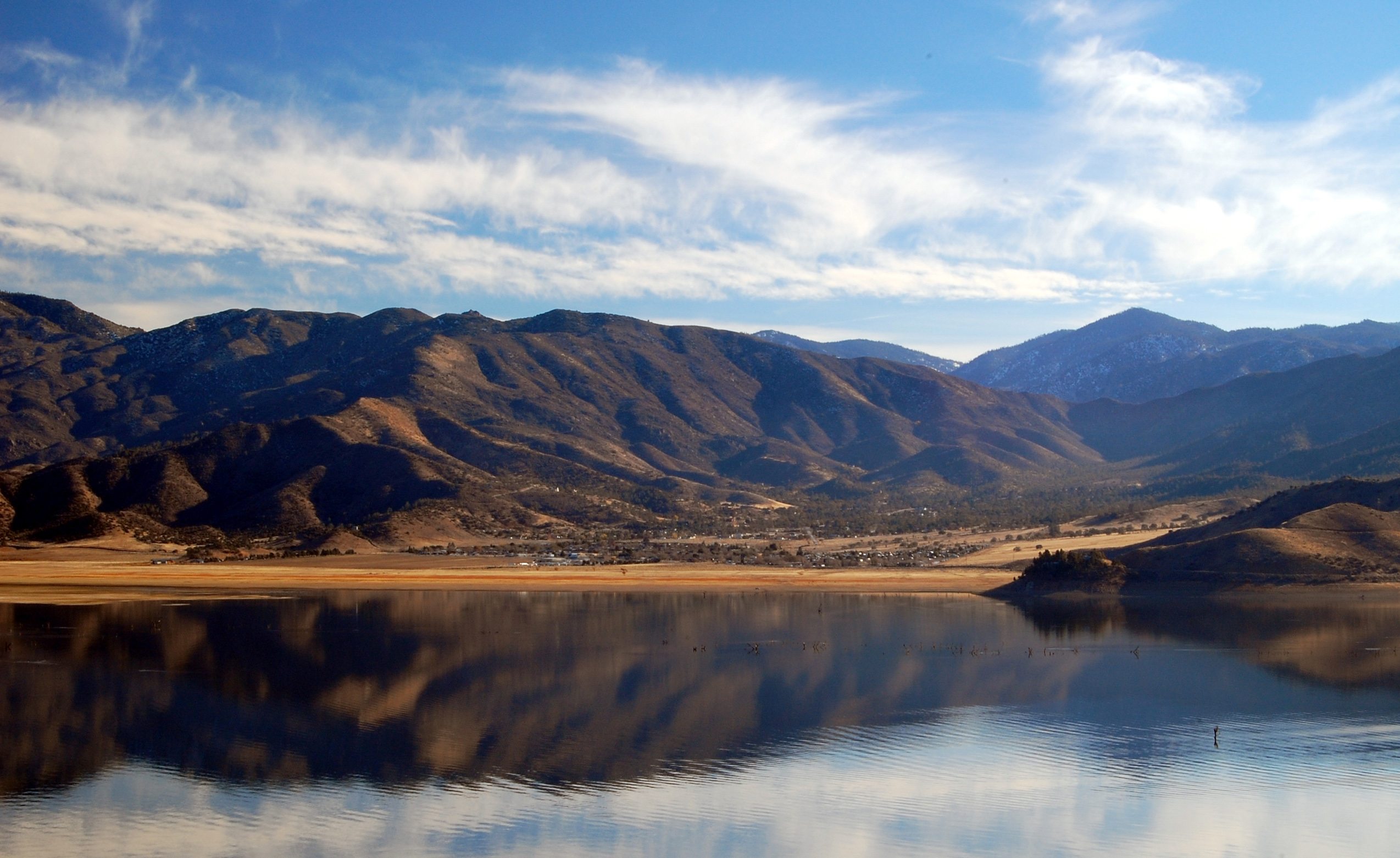 Mountain Mesa, California as viewed from Sierra Way on the northern side of Lake Isabella, near Kernville, CA, USA